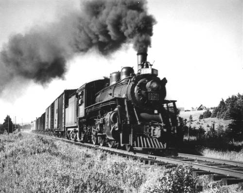 This image shows a standard gauge engine pulling freight and a passenger/baggage car on the Prince Edward Island Railway in the area of Maple Hill in the spring of 1949. The move to standard gauge allowed the use of full-sized locomotives like this 2-6-2 example. With their introduction, the bridge in Charlottetown was too small to safely carry large engines of this size, and the branch to Murray Harbour was cut just south of the city. The line through Maple Hill, the "Short Line", reconnected the branch.